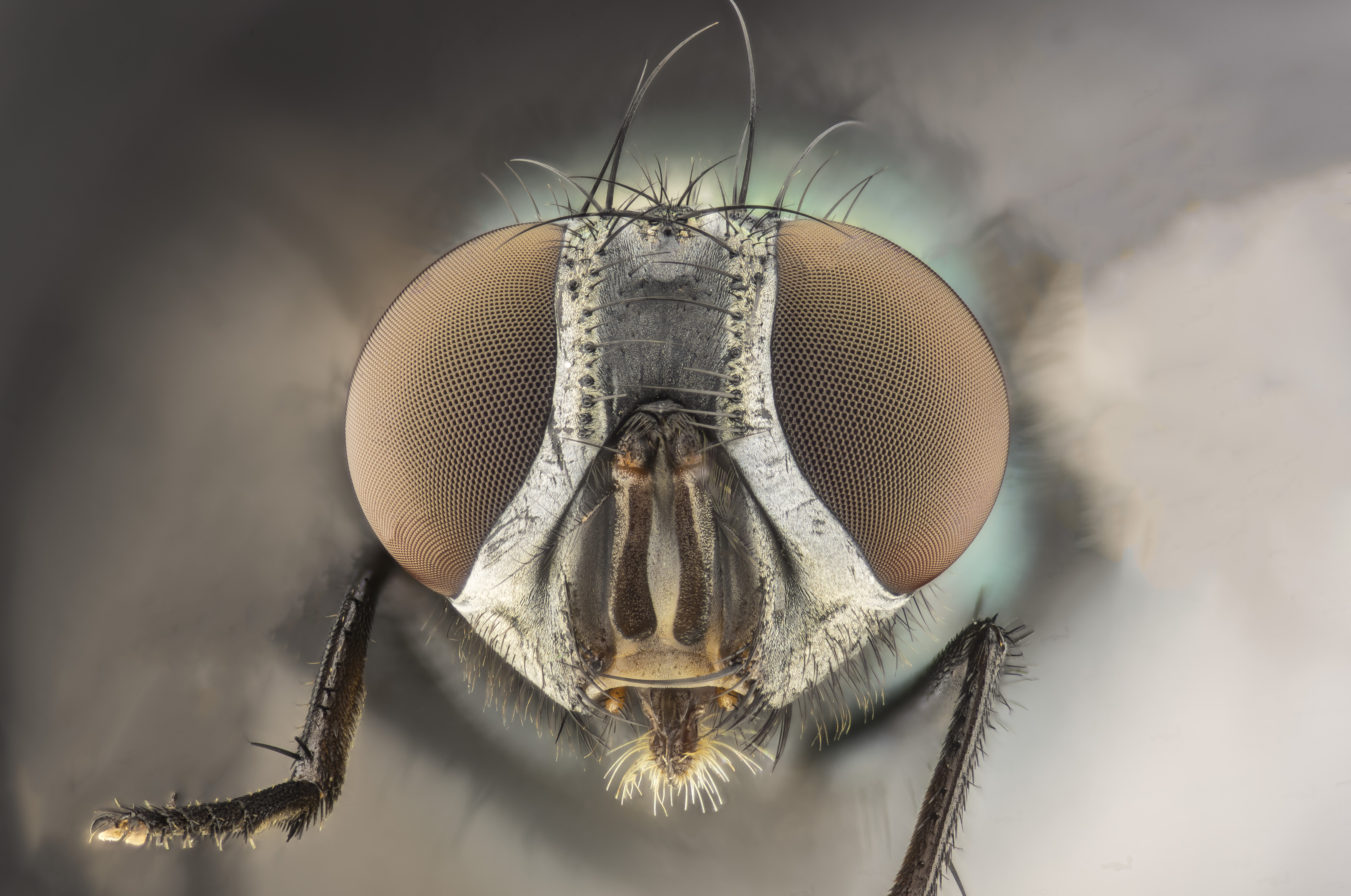 Common green bottle fly. 4x magnification. Focus stacking of ca 160 images.